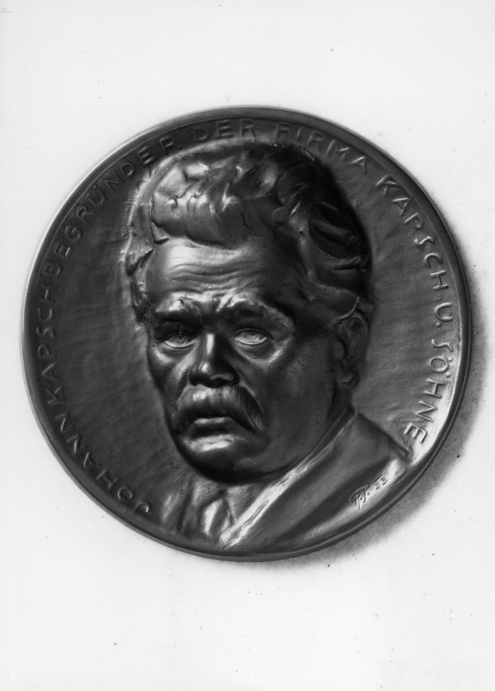 Picture of a relief of Johann Kapsch, Founder of "Kapsch and Söhne".